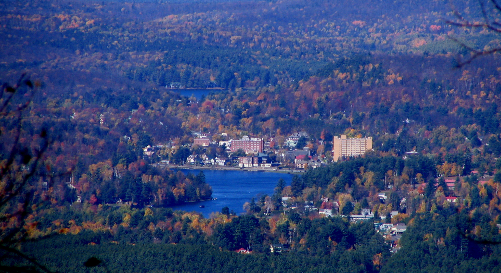 The Village of Saranac Lake, New York taken from Roger Mtn., also known as Scarface Mtn, to the southeast, Lake Flower in the foreground, Lake Colby above. Taken by User:Mwanner, 21 October, 2007